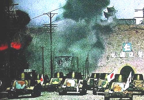 IJA Type 94 tanks attacked Nanking Chonghua gate.